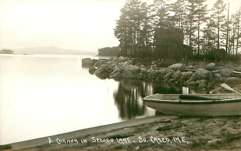 A corner in Sebago Lake, South Casco, Maine